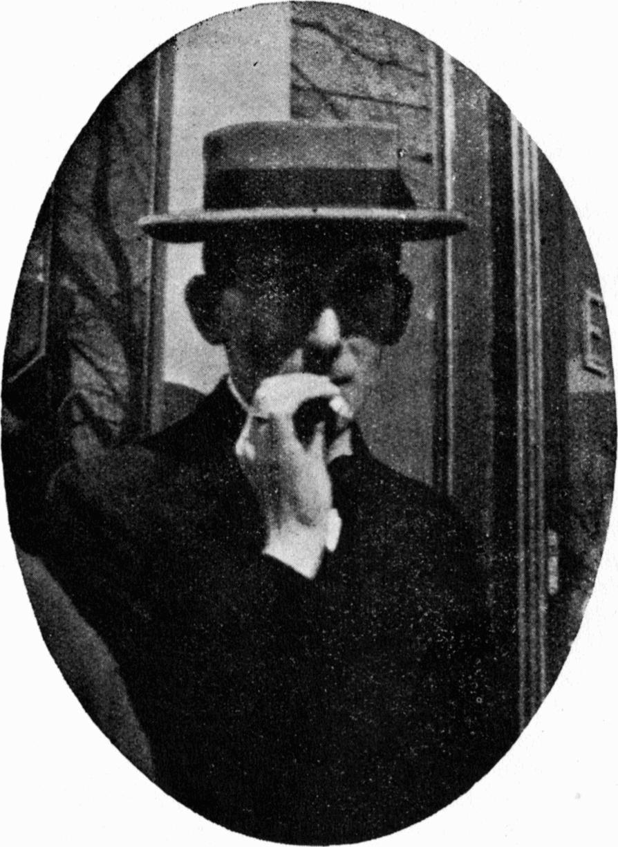 Hugo Ball.